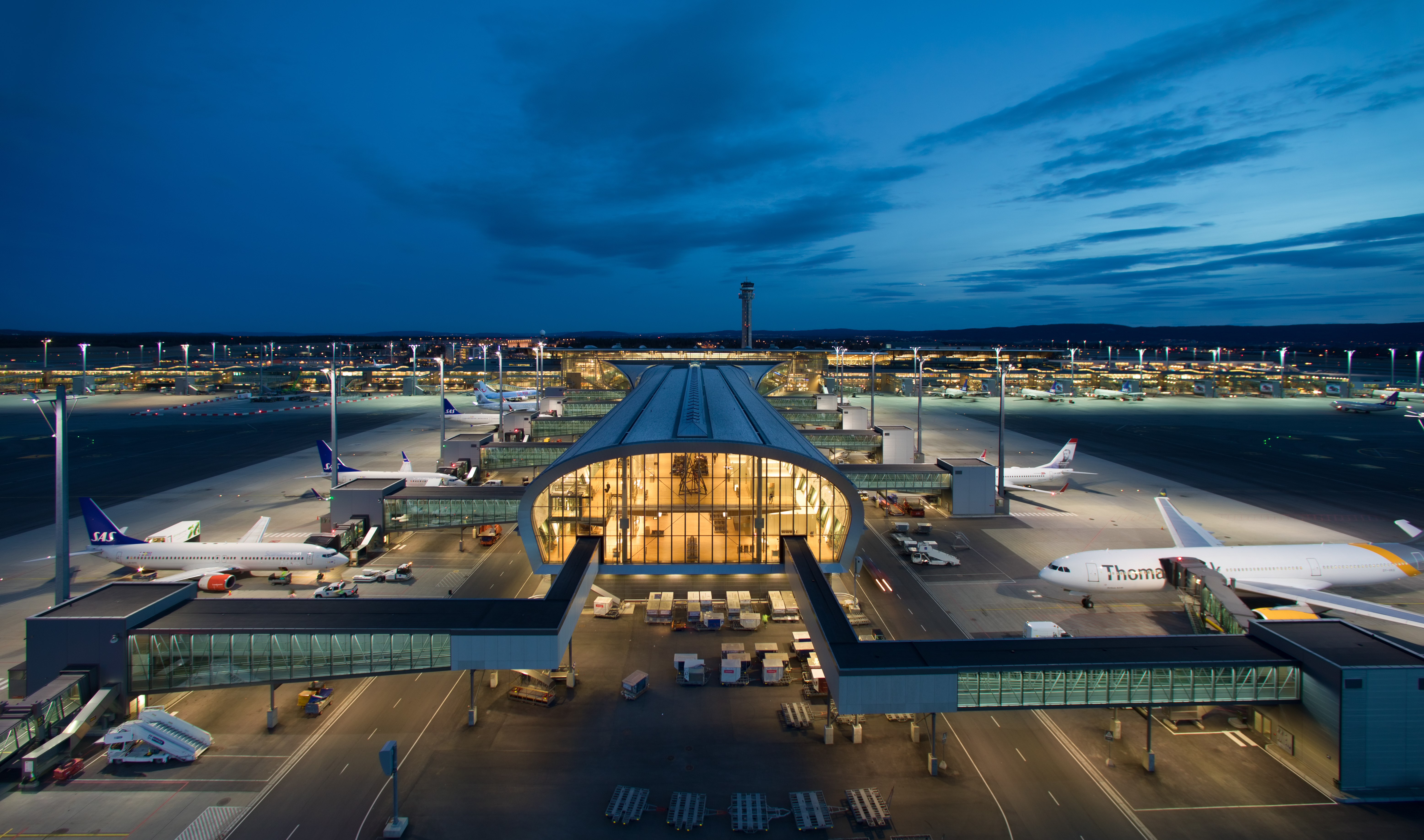 View of Oslo Airport at dusk